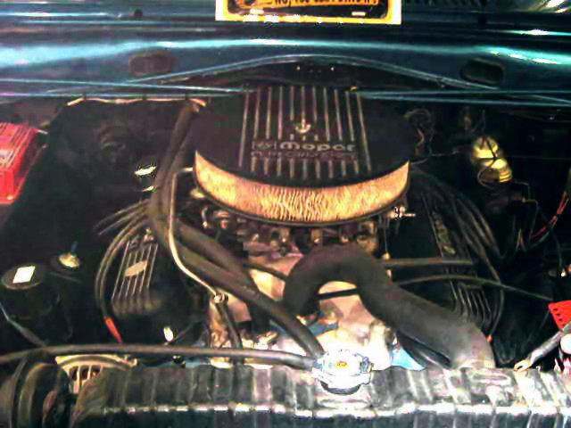 Plymouth Barracuda 65 Engine compartment